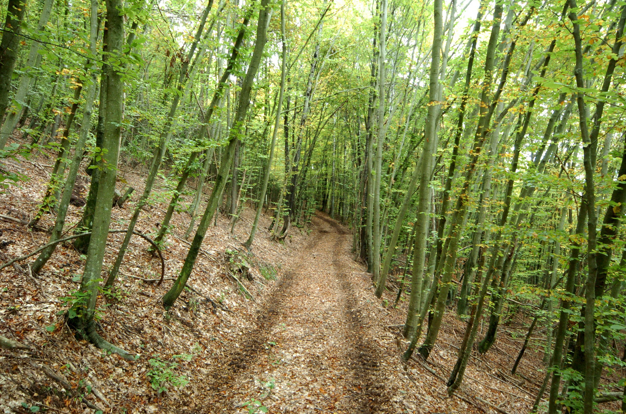 Forest track between Saager and Gumisch below the Skarbin mountain, municipality Grafenstein, district Klagenfurt Land, Carinthia / Austria / EU